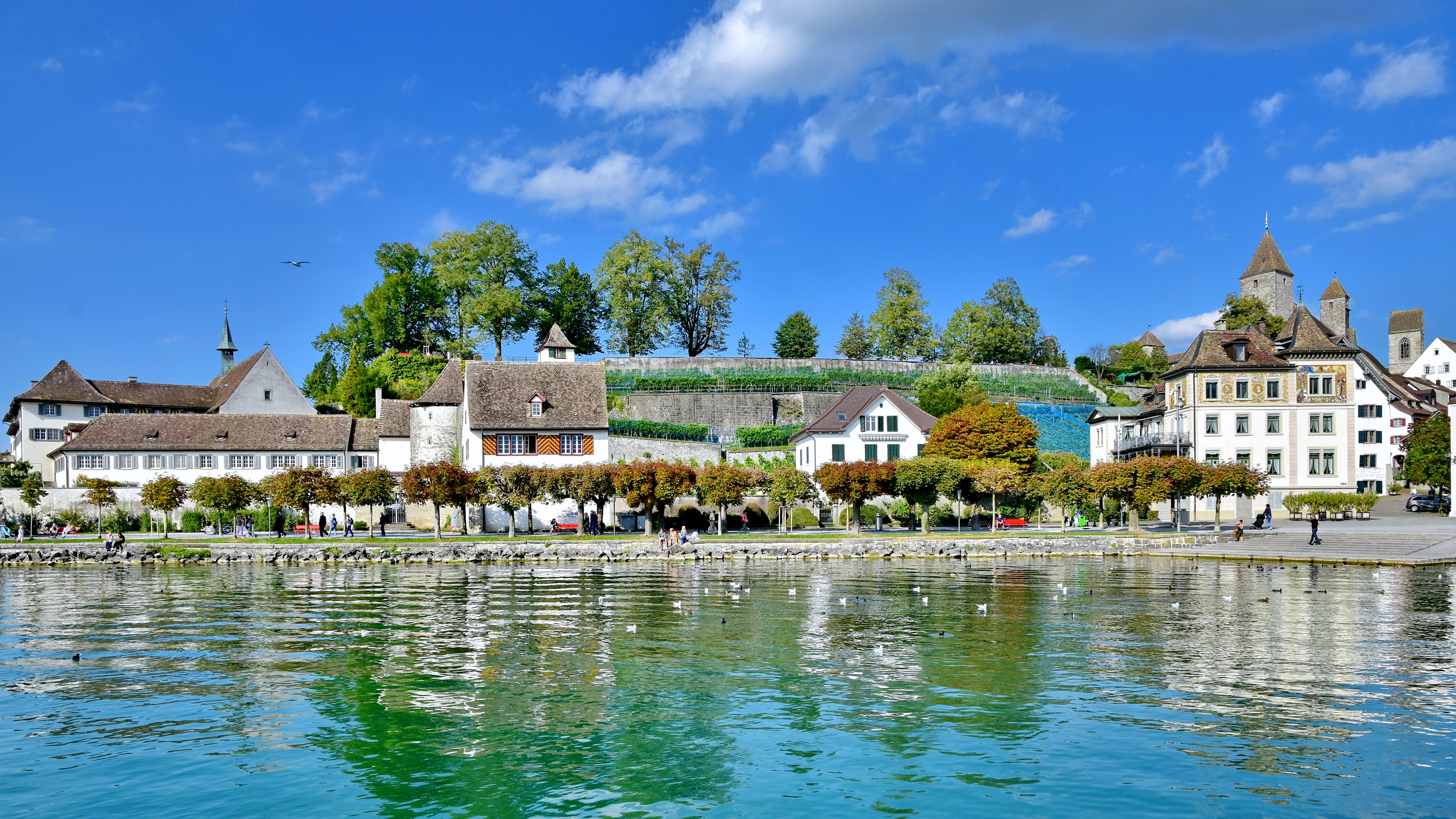 Rapperswil : Lindenhof hill and the castle (Schloss), and on lakeshore the Kupuzinerkloster and Endingen fortification, Einsiedlerhaus and Curti buildings, as seen from Zürichsee-Schiffahrtsgesellschaft (ZSG) ship MS Helvetia on Zürichsee in Switzerland